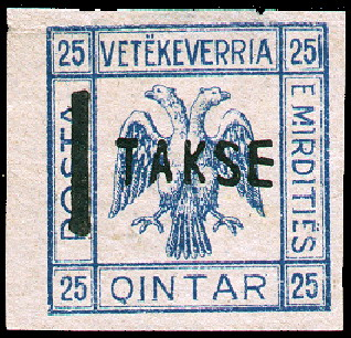 A cinderella postage due stamp issued on behalf of Vetёkeverria e Mirditiёs in Albania